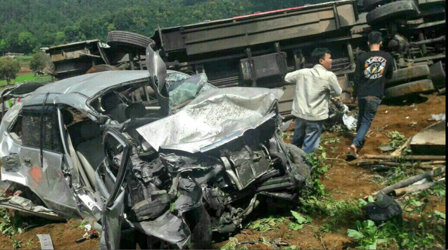 Aftermath of Puncak disaster where a bus slammed onto multiple vehicles and fell off a cliff, killing 11 people